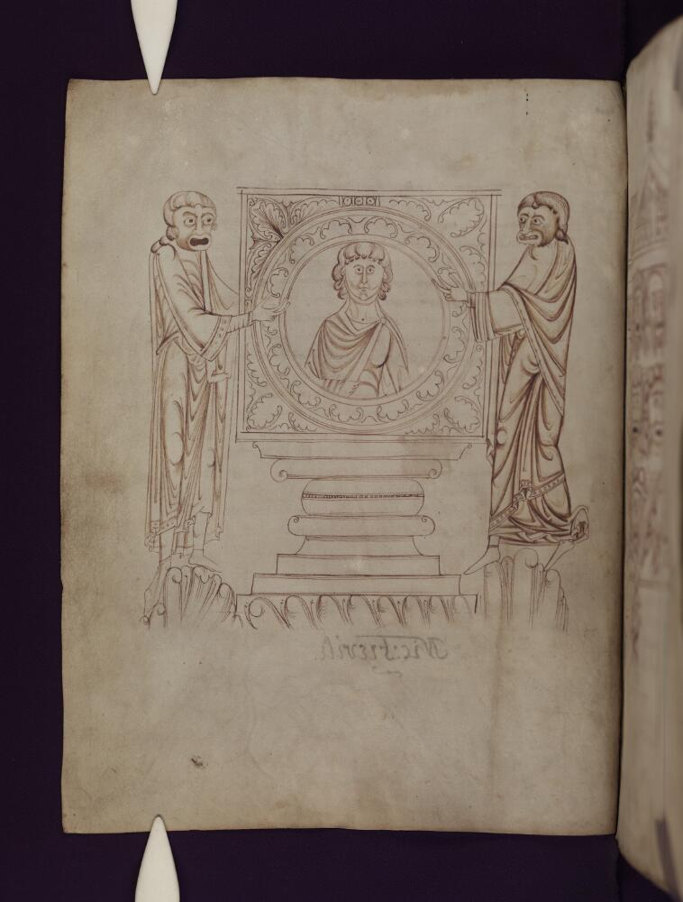 Terence's Comedies, in Latin, with Romanesque drawings comprising the latest version of the Late Antique cycle of scene-illustrations, St. Albans Abbey, mid 12th century. The first of the four artists (fols. 2v-17v) is identifiabl e as 'The Master of the Apocrypha Drawings' in the Winchester Bible. The illustrations for Andria V.1-2 at fol. 28r-v are missing in the Caroli ngian witnesses.; 2v